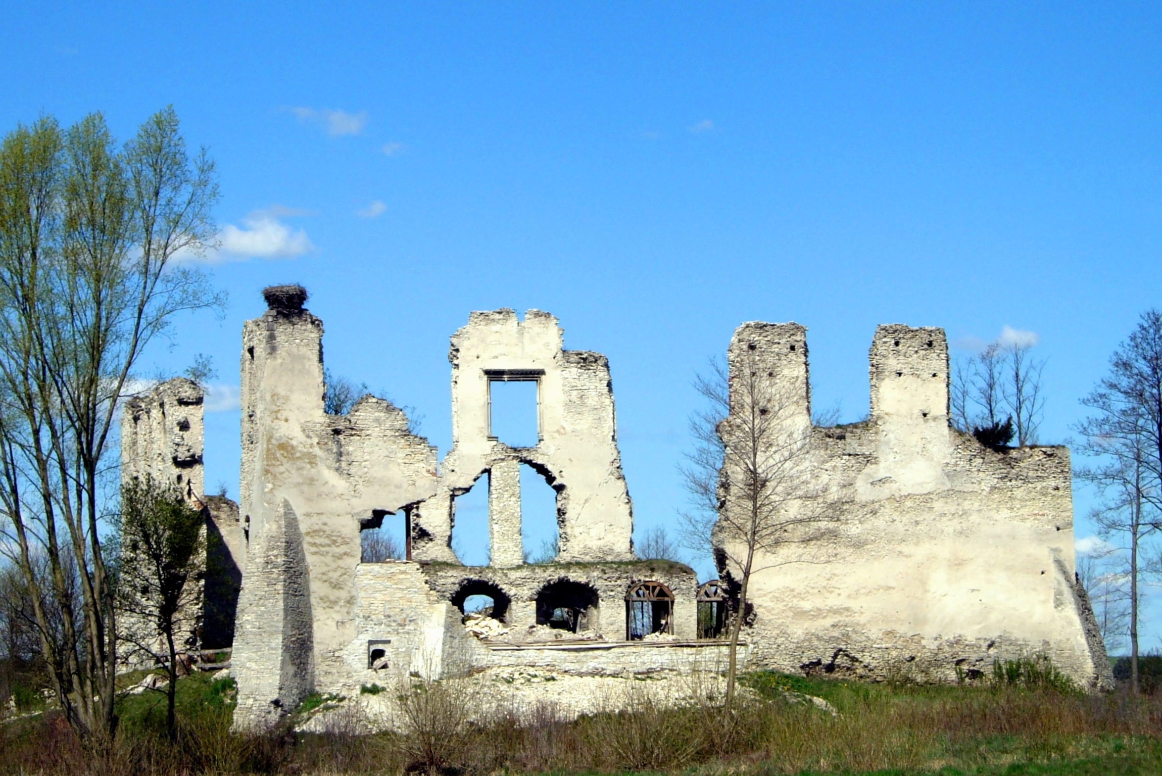 The Castle Ruins in Mokrsko Górne, Poland